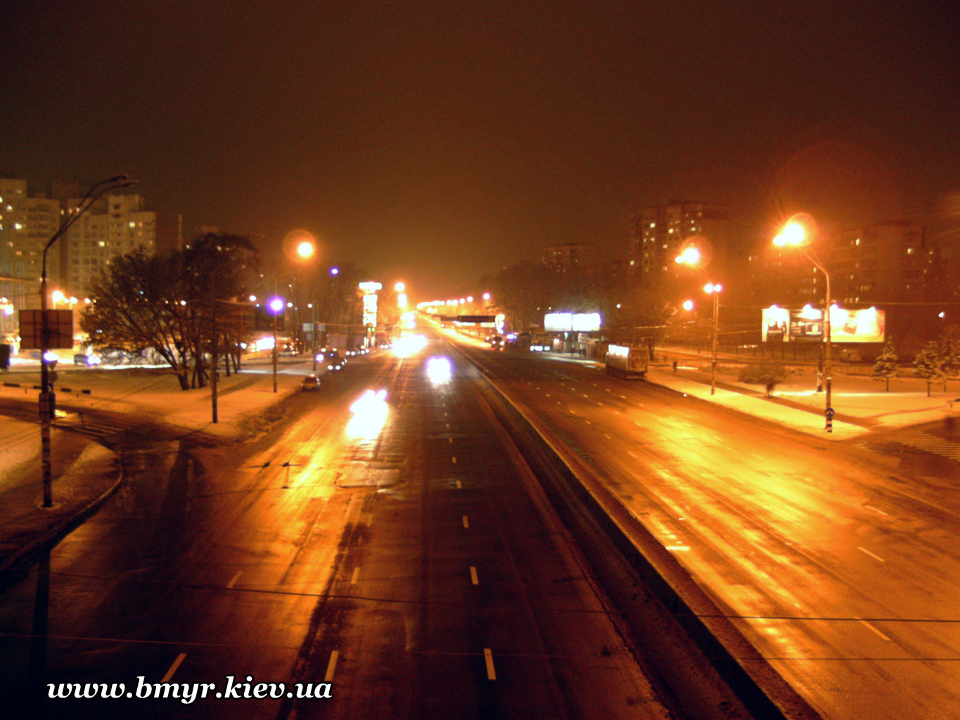 Akademika Hlushkova Avenue in Kyiv, Ukraine